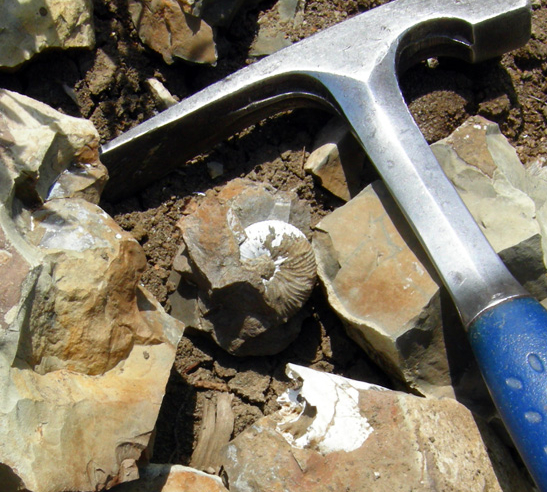 crop of File:BrokenConcretion22.jpg A broken concretion with fossils inside; Late Cretaceous Pierre shale, near Ekalaka, Montana.